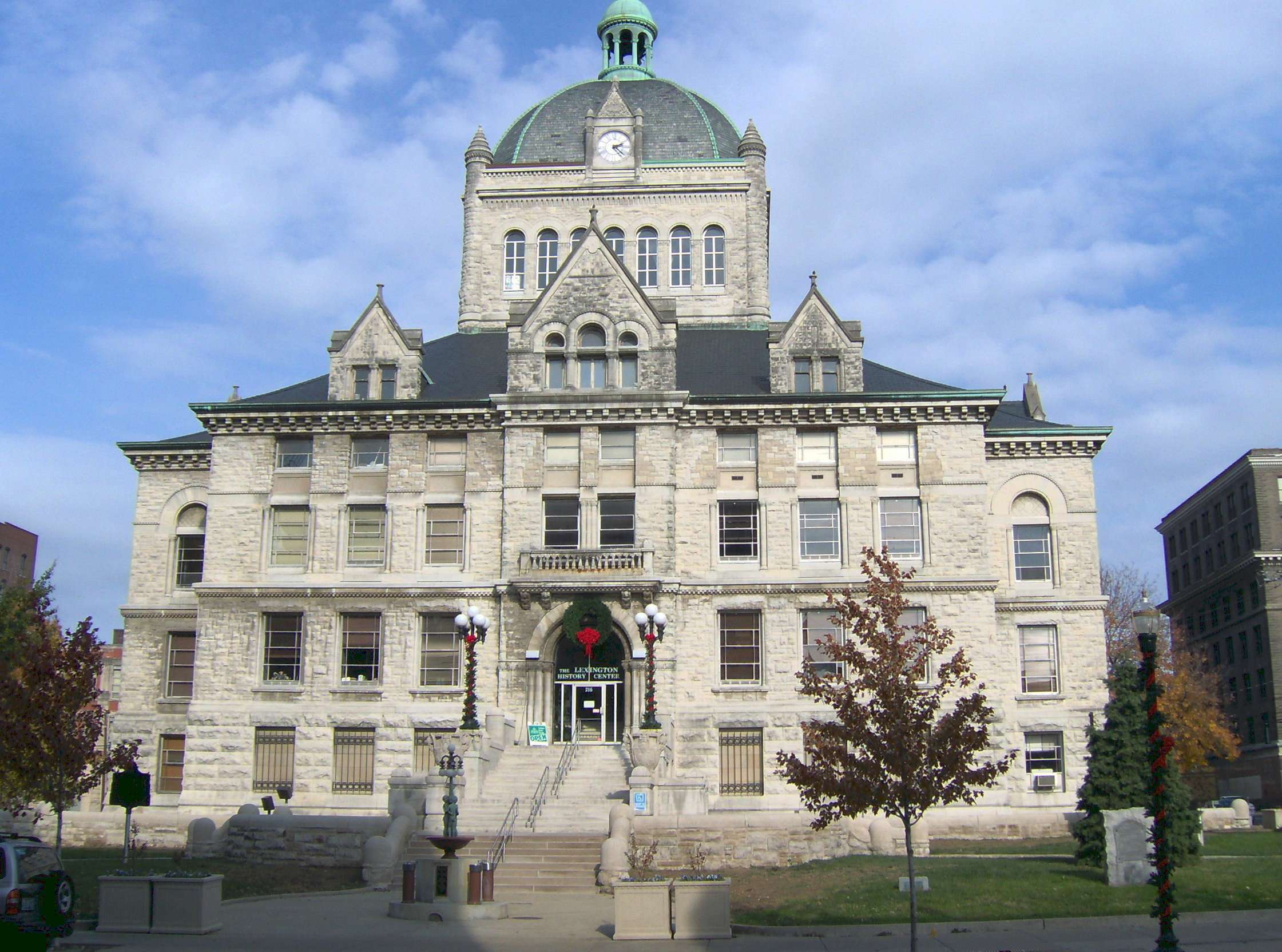 Image of old Fayette County, Kentucky courthouse now the home of the Lexington History Center. Located at 215 West Main Street, Lexington, Kentucky.